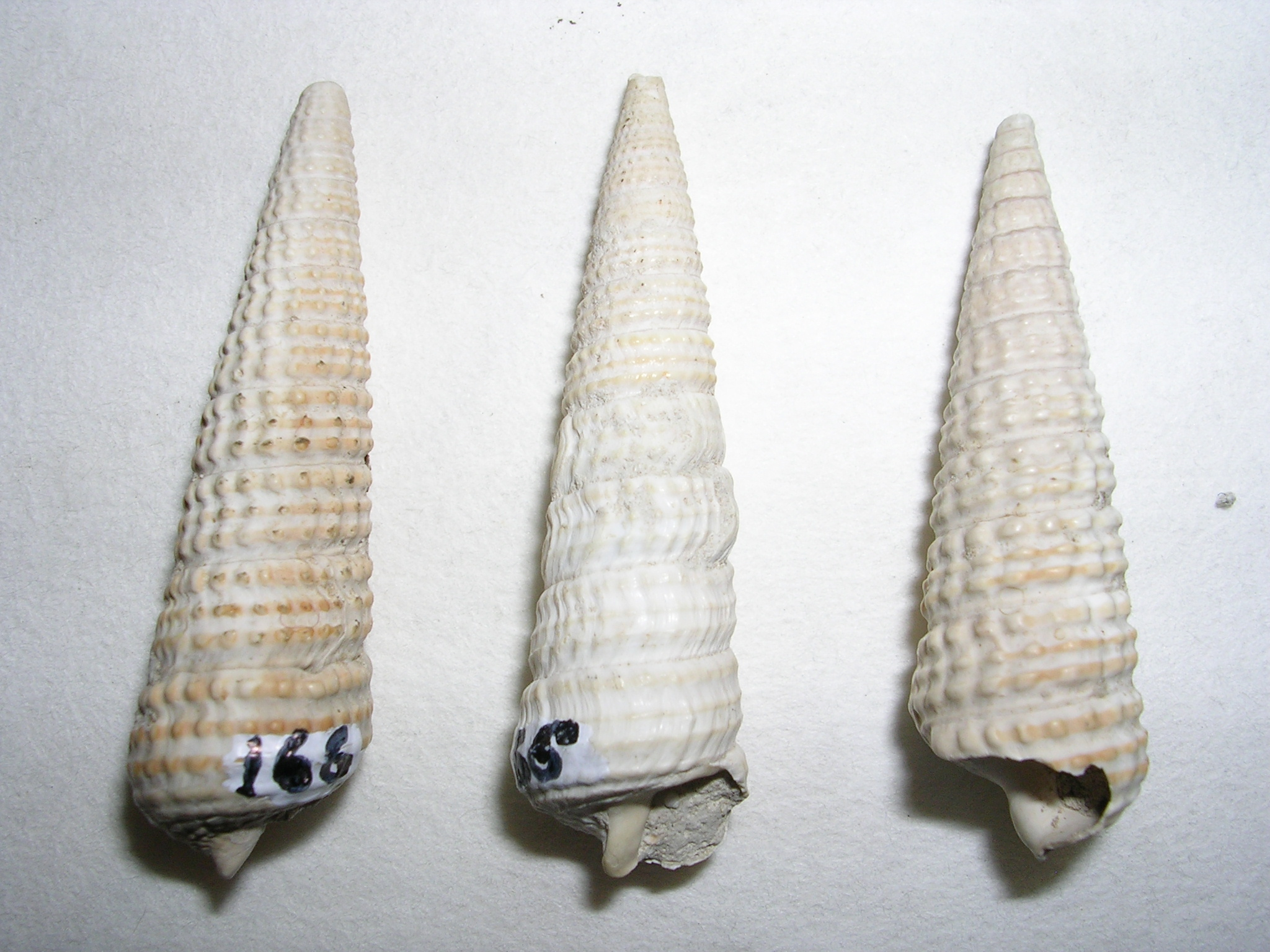 Potamides migralis fossil (Mioceno) founded in Burgos, in a laboratory of practices of the Faculty of Sciences of the University of Corunna.